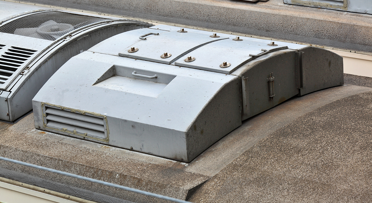 A ventilation fan with the thermo exchanger, on the JNR 117 series.